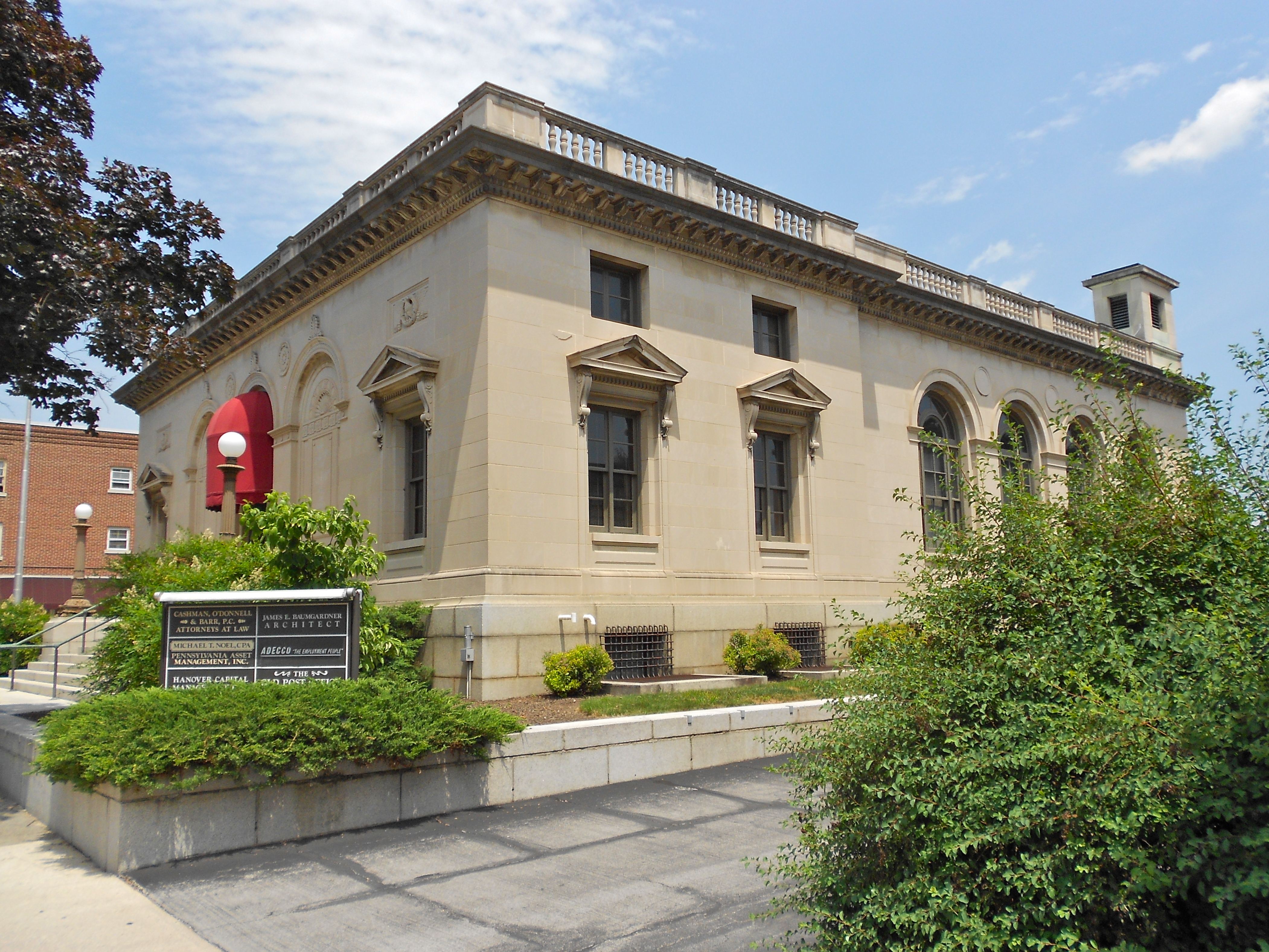 The old Post Office in Hanover, York County, Pennsyvania. Listed on the NRHP.